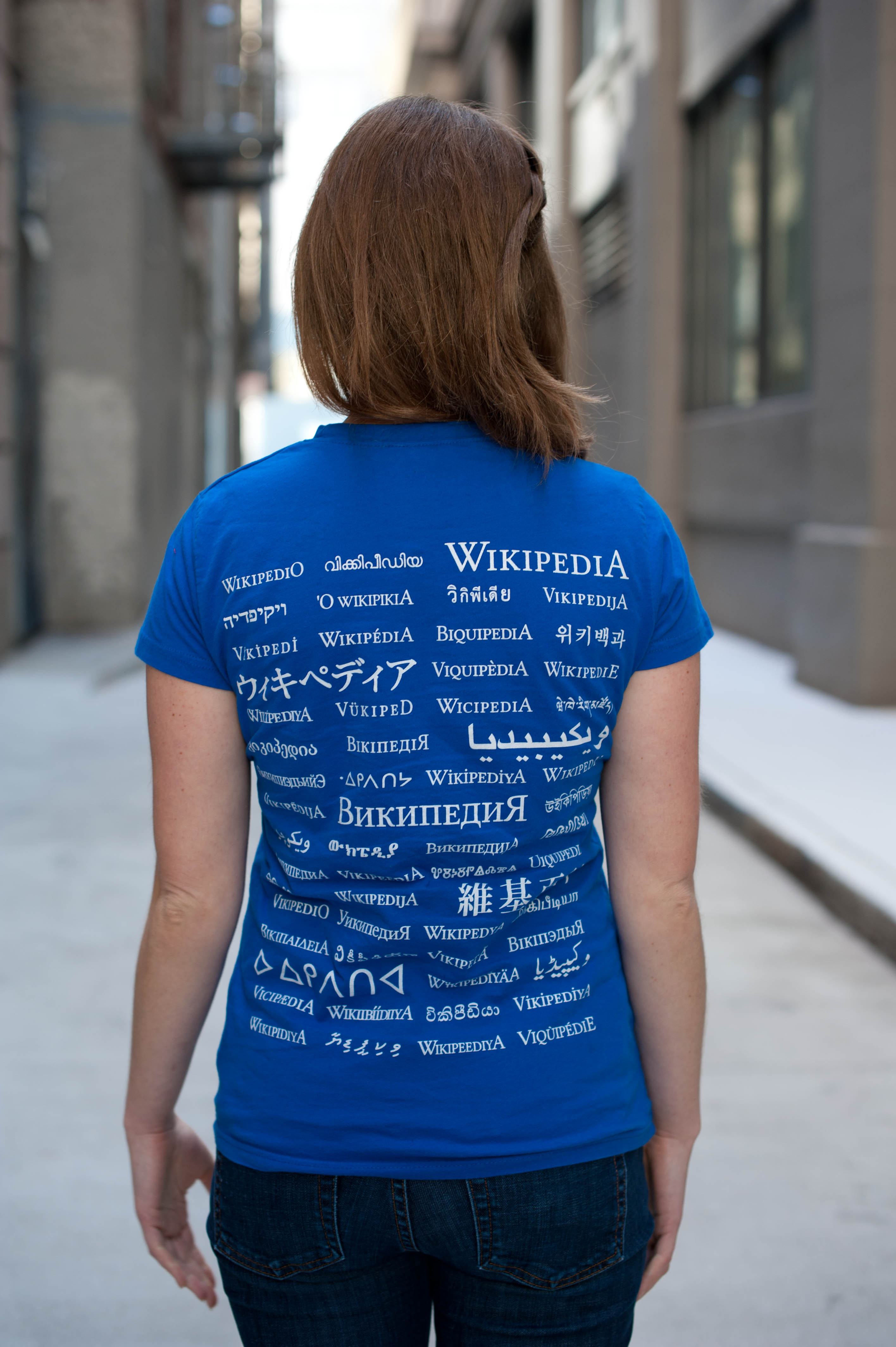 WMF Merchandise